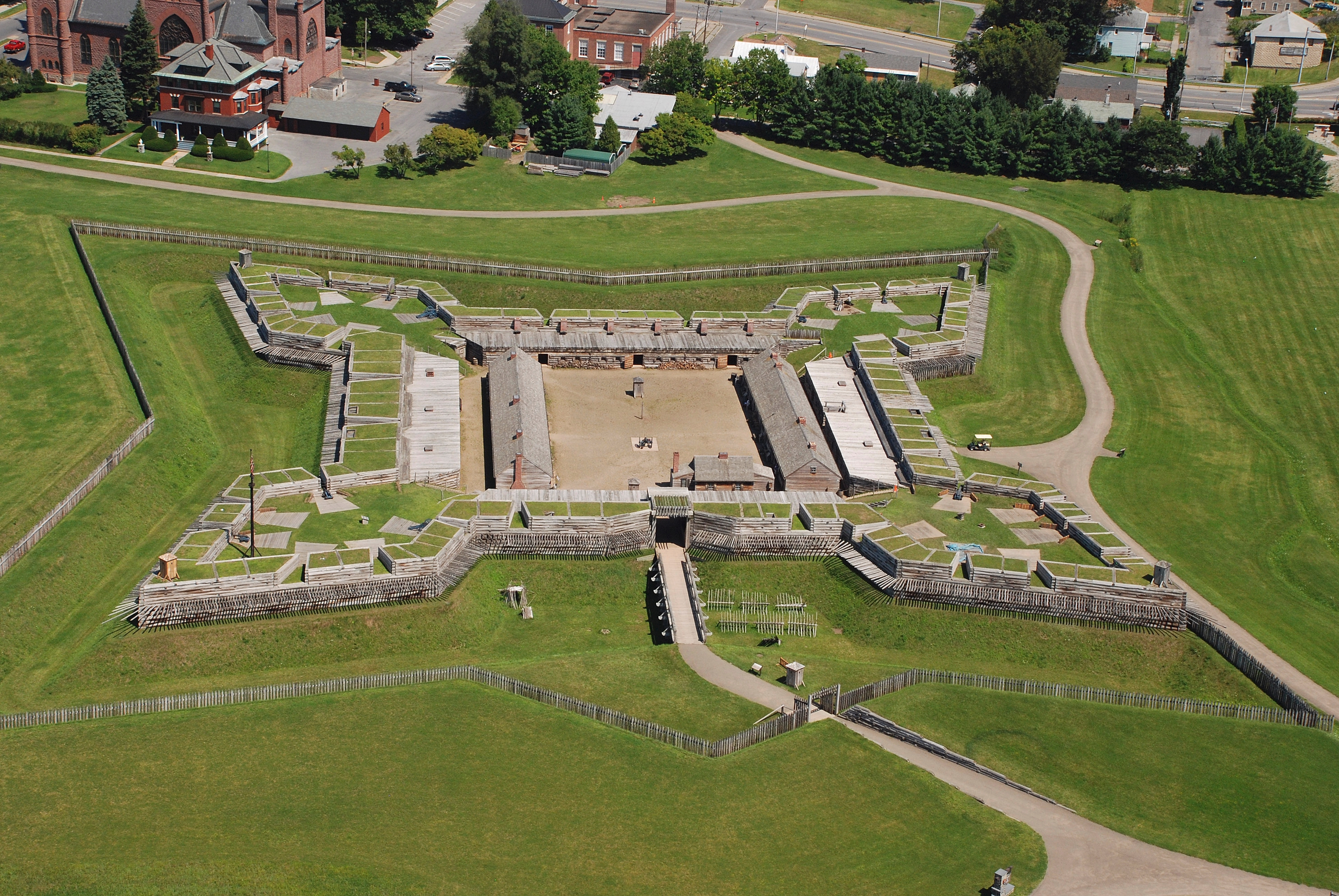 Fort Stanwix National Monument, Rome, NY, USA. Original Caption: And bird's eye view of the grounds of Fort Stanwix National Monument.